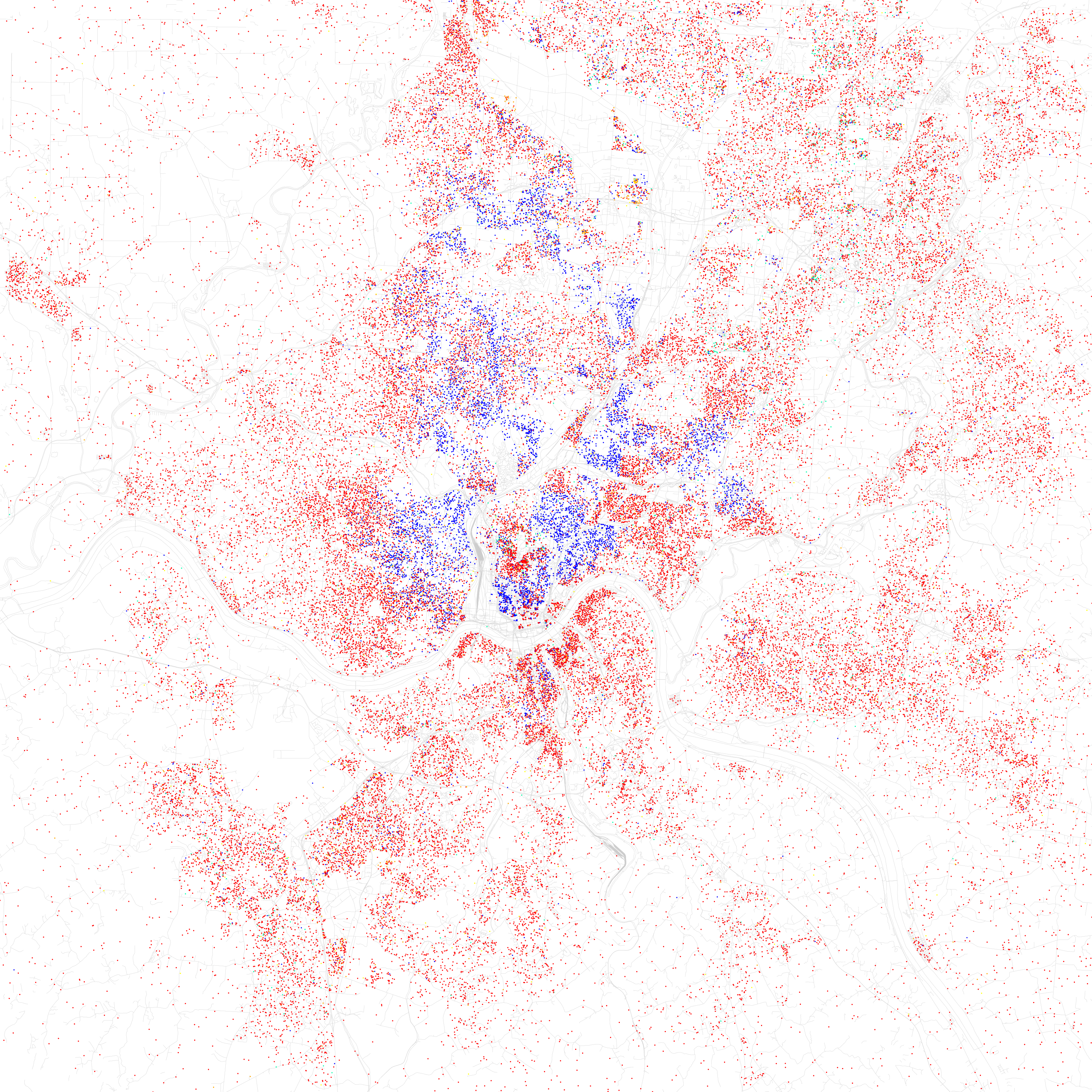 Maps of racial and ethnic divisions in US cities, inspired by Bill Rankin's map of Chicago, updated for Census 2010. Red is White, Blue is Black, Green is Asian, Orange is Hispanic, Yellow is Other, and each dot is 25 residents. Data from Census 2010. Base map © OpenStreetMap, CC-BY-SA